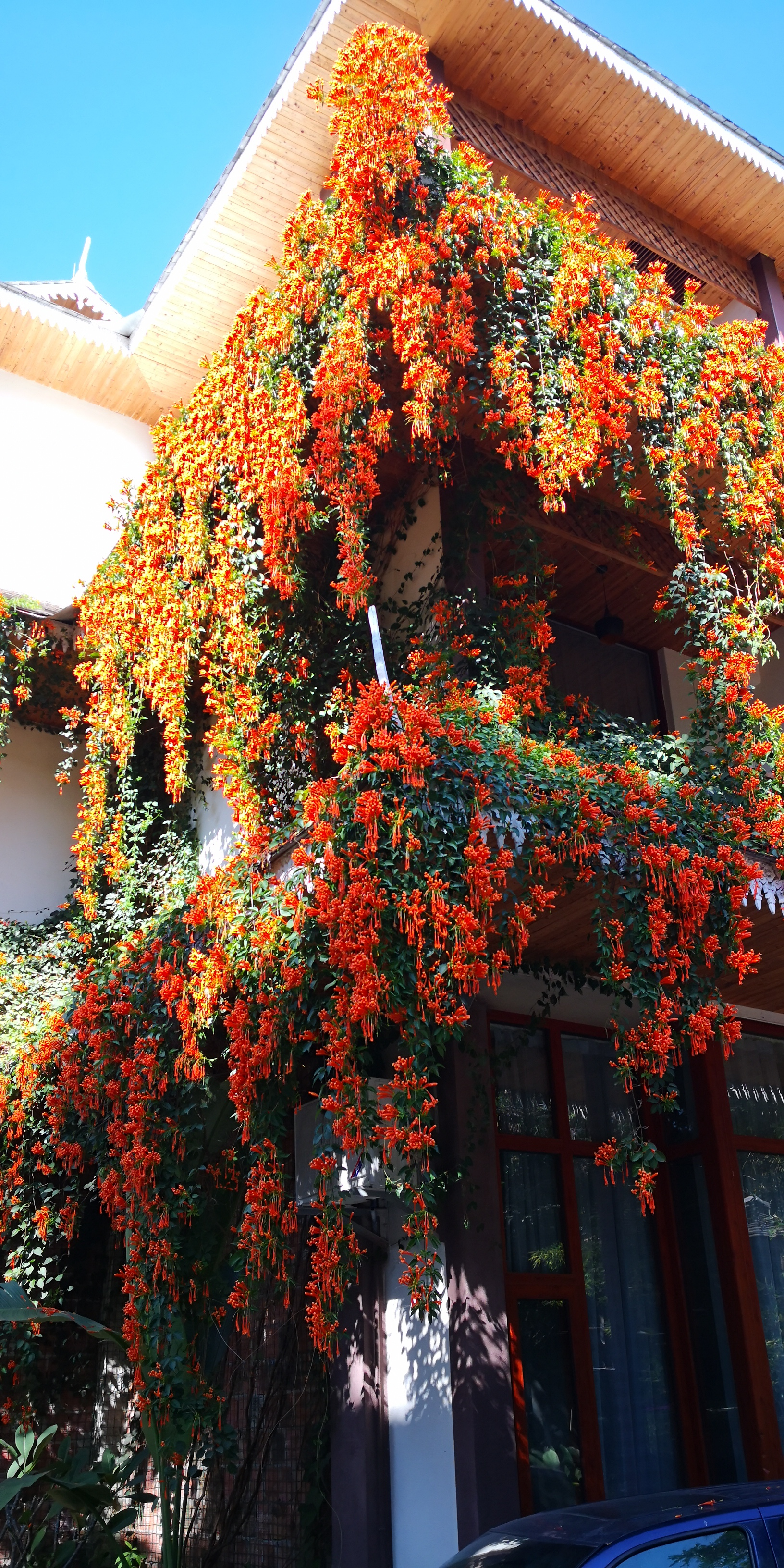 Pyrostegia venusta - Habitus. January 2020. Location: Jinghong, Xishuangbanna, Yunnan, SW China.